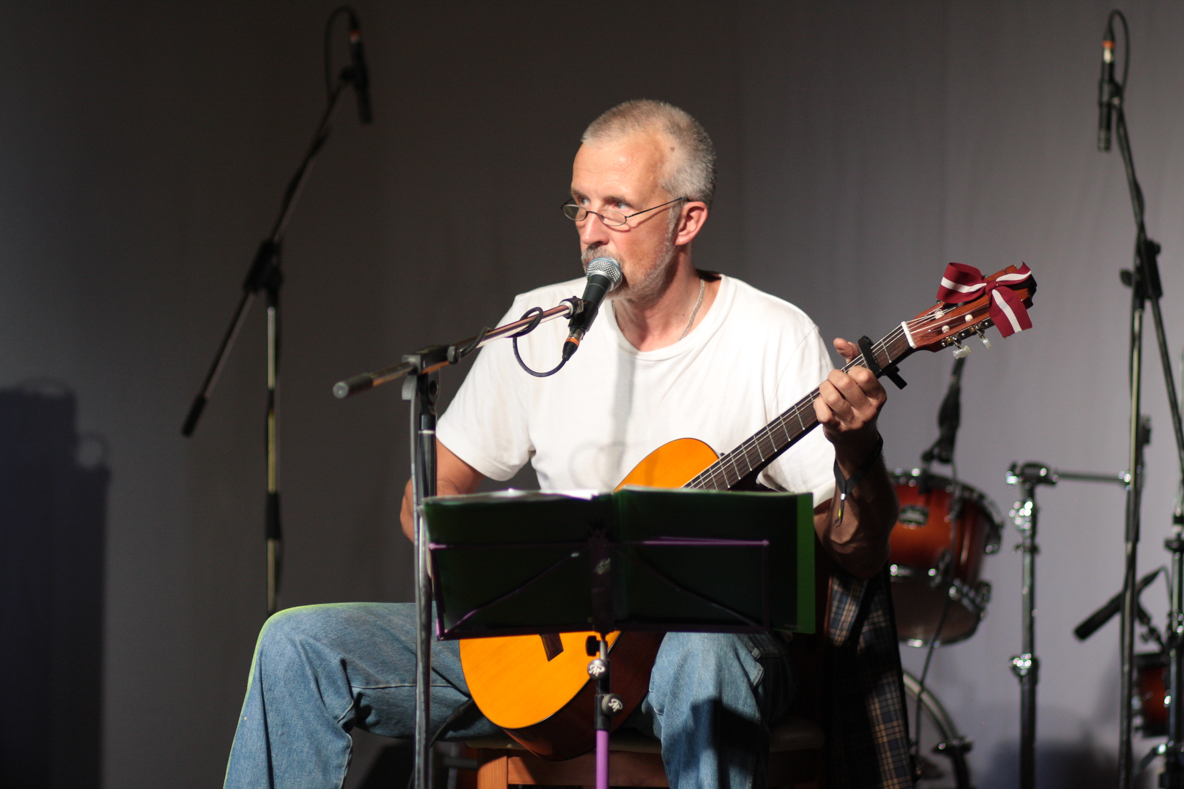 Kaspars Dimiters, Latvian musician